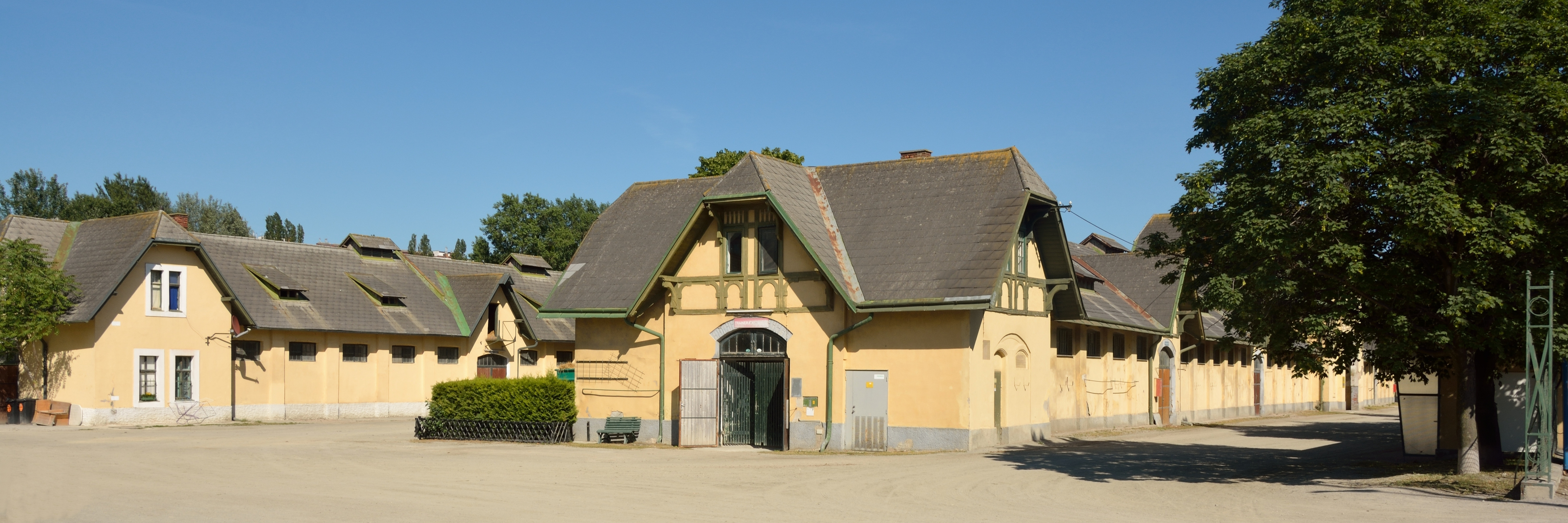 Trabrennbahn Krieau, stabling, 2nd district of Vienna